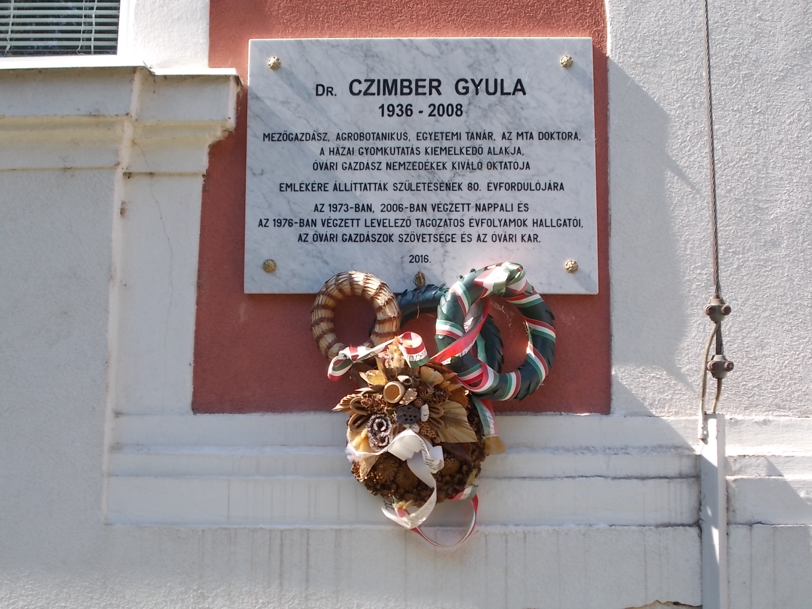 Listed buiding. Block C is the Department of Food Science of the Faculty of Agricultural and Food Science of Széchenyi István University. Plaque. - 15-17 Lucsony Street, Magyaróvár neighborhood, Mosonmagyaróvár, Győr-Moson-Sopron County, Hungary.